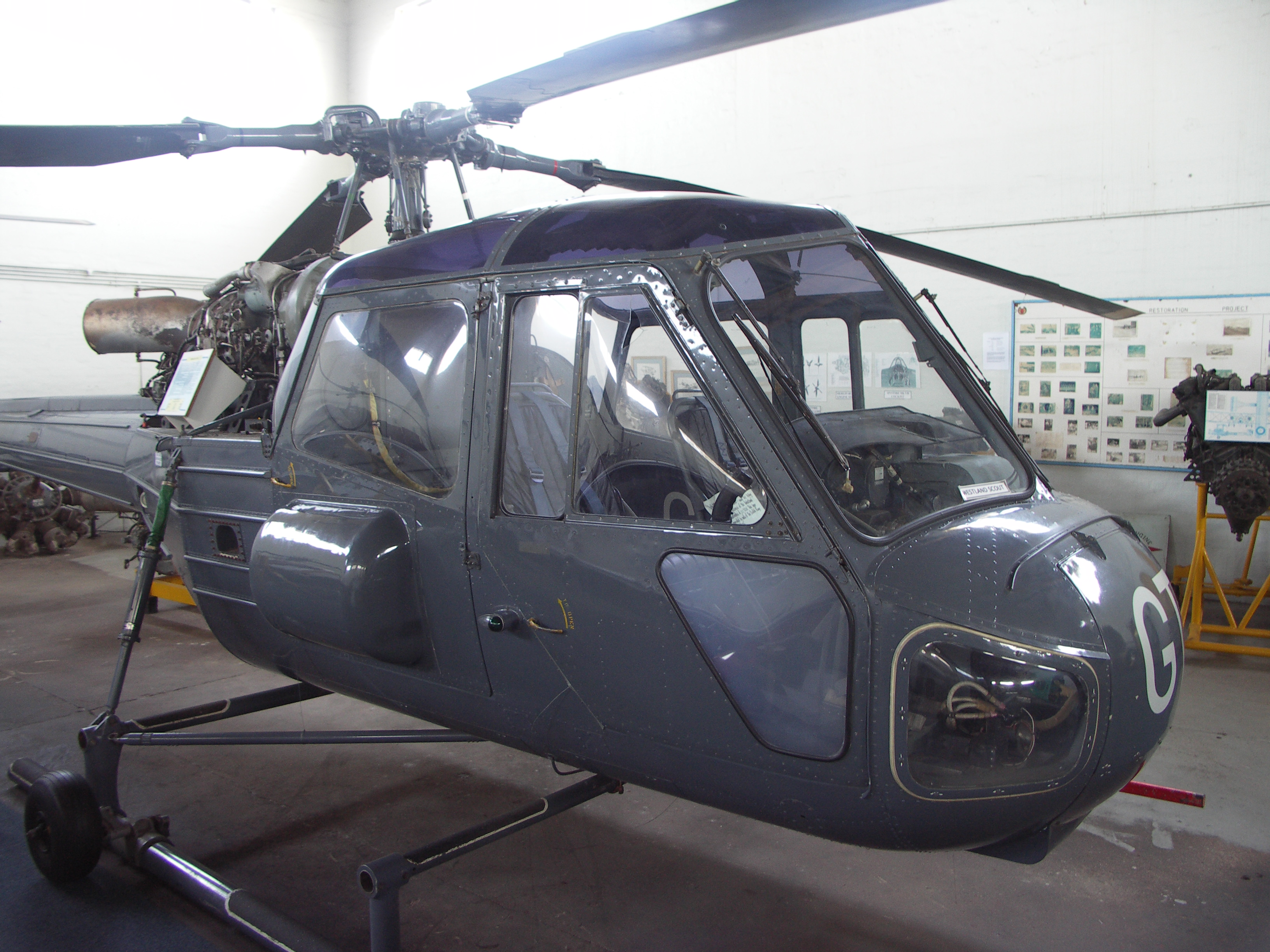 Westland Scout at the SAAF museum, Port Elizabeth, South Africa